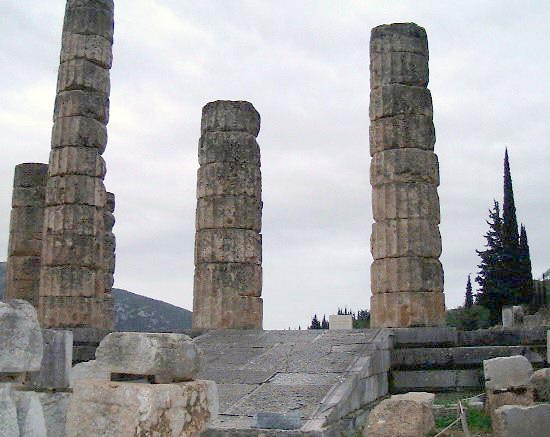 Temple of Apollo at Delphi. Taken December 2001.